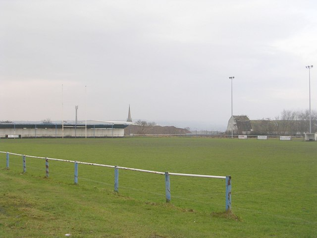 Dudley Hill Amateur Rugby League Club Ground - viewed from Lower Lane, Data from Geograph: Description: SE1832 :: Dudley Hill Amateur Rugby League Club Ground - viewed from Lower Lane, near to Bradford, Great Britain ICBM: 53.784009806983, -1.7252638264492 Location: (about 2 km from) near to Bradford, Great Britain.